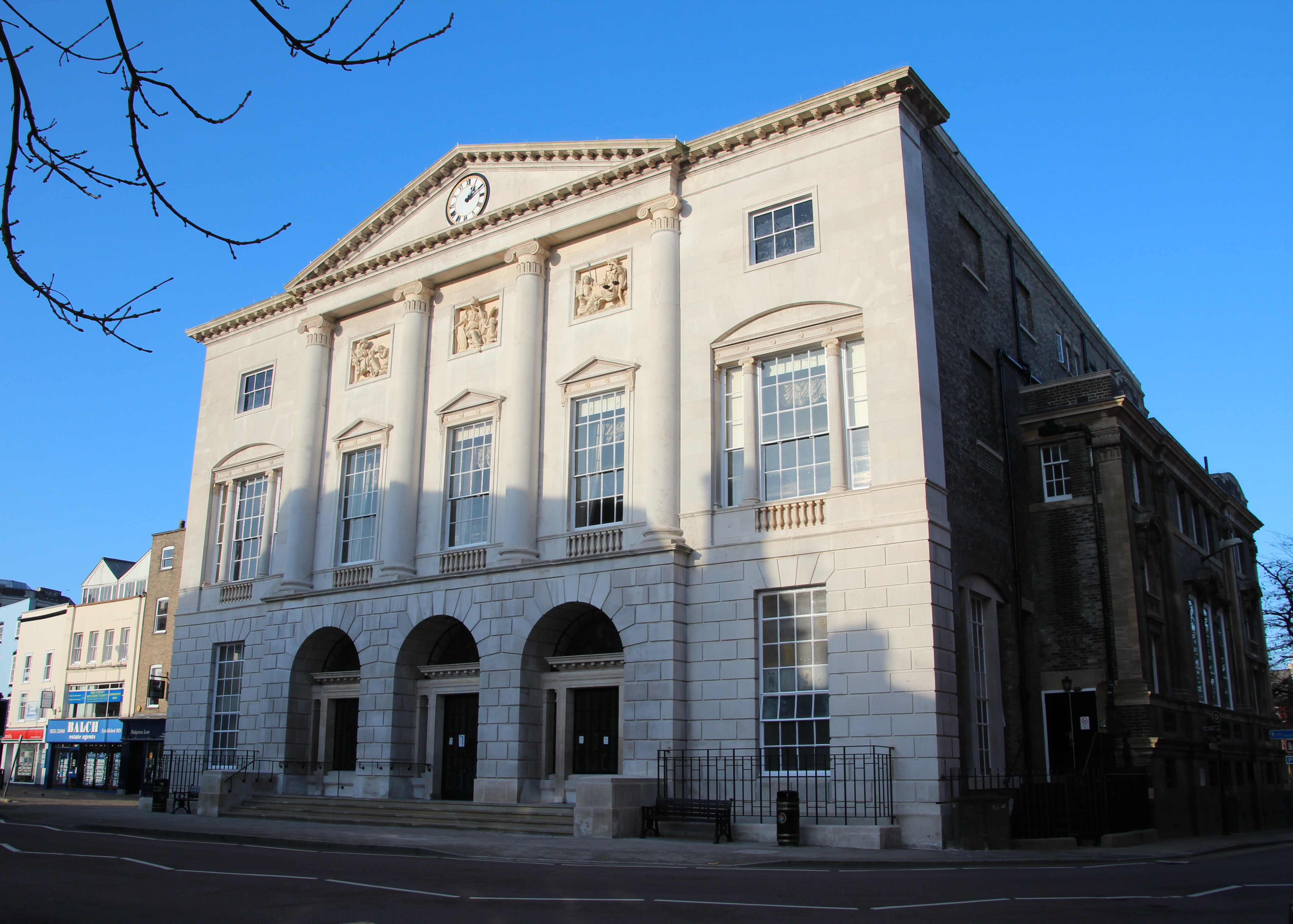 The Shire Hall Chelmsford shortly after refurbishment in December 2014.